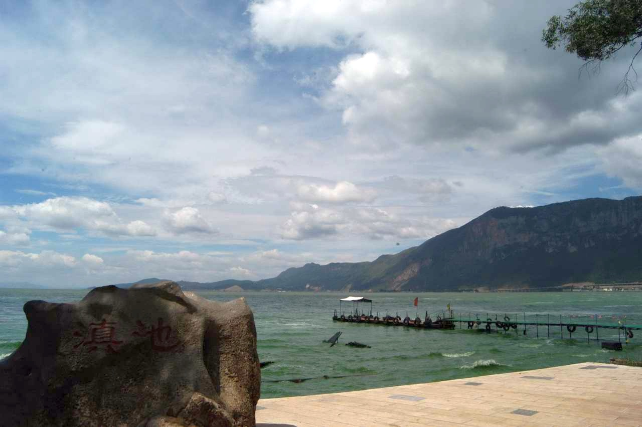 Lake Dian (a.k.a. Dianchi) (south of Kunming, Yunnan)